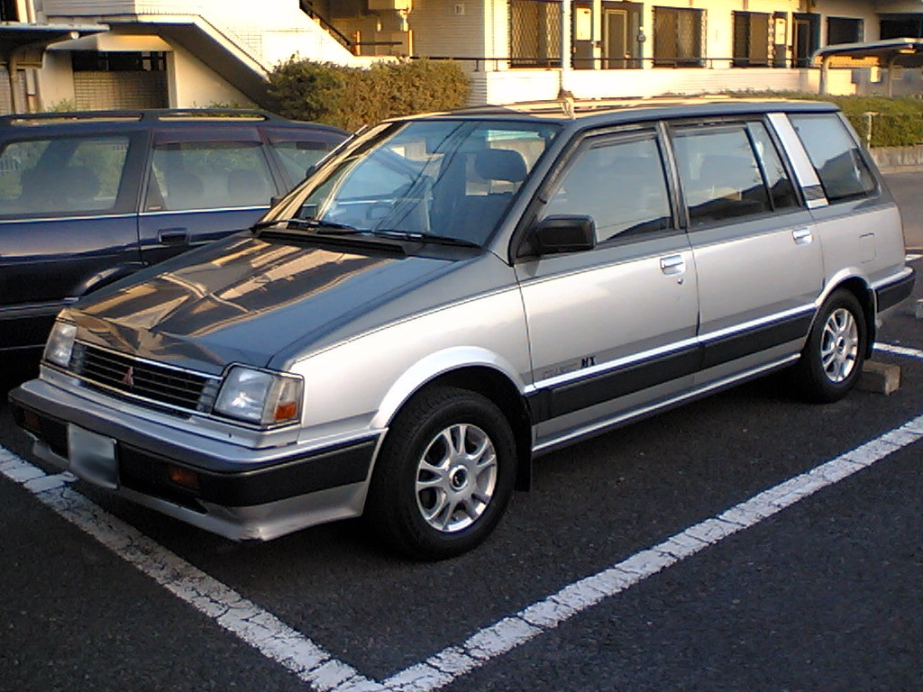 Mitsubishi Space Wagon (the name in Japan is Chariot). It is type the second half of the first model.